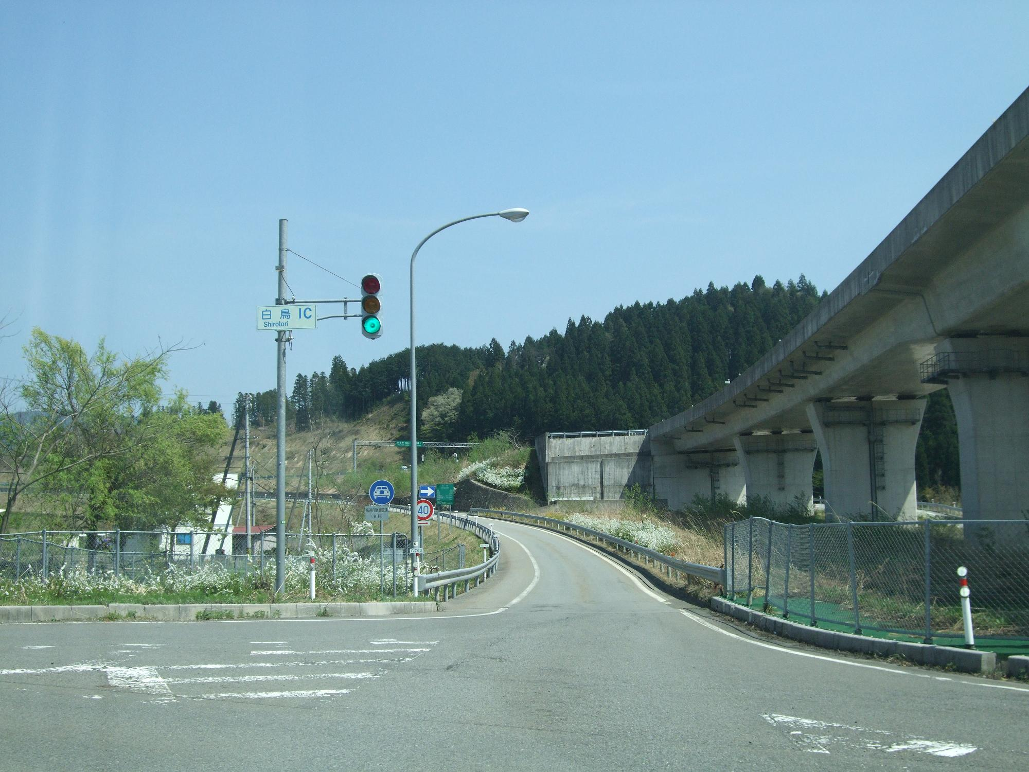 Entrance of Shirotori Interchange on the Tokai-Hokuriku Expressway